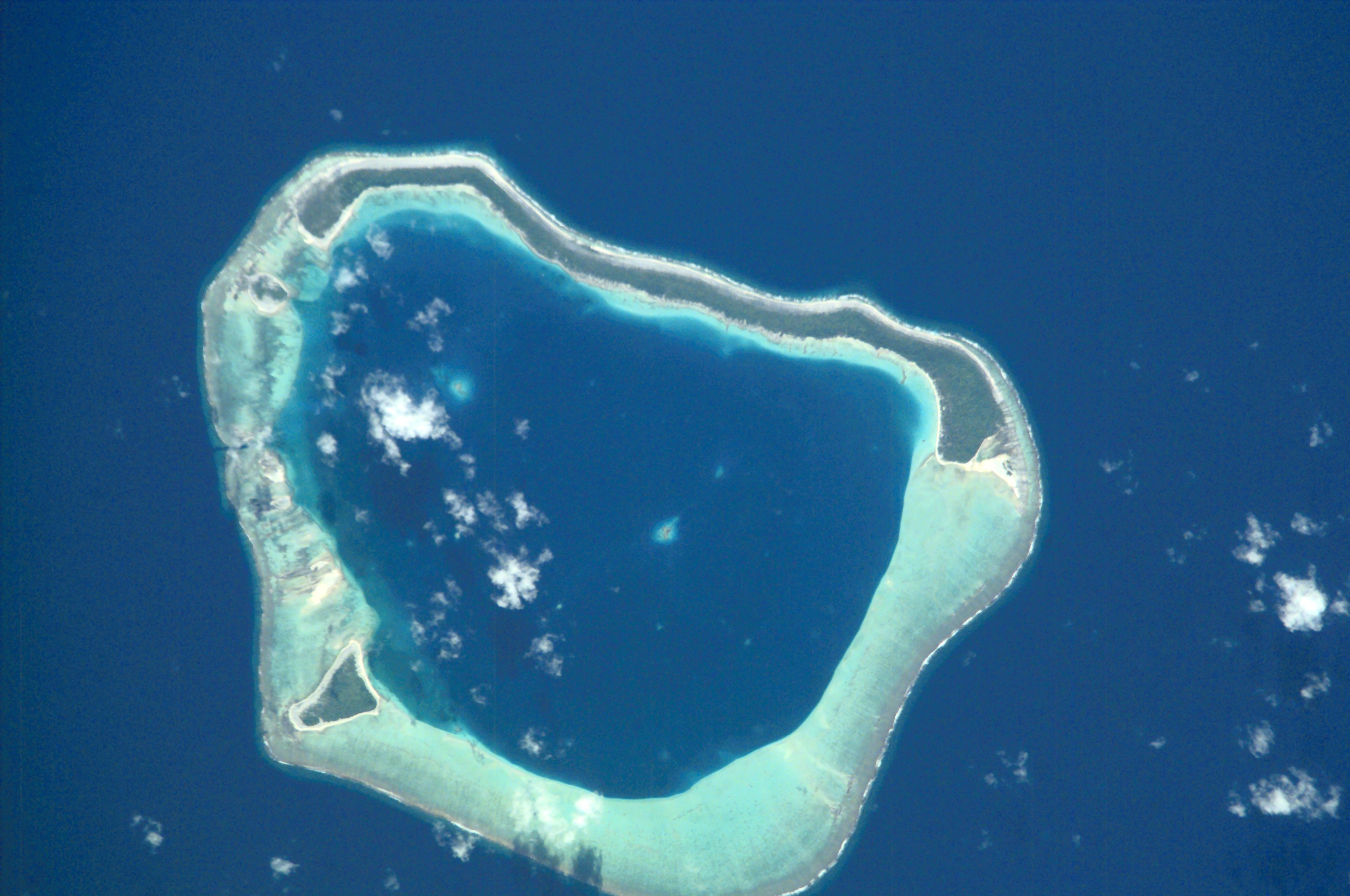 NASA Astronaut Image of Maupihaa (Society Islands, French Polynesia) in the Pacific Ocean